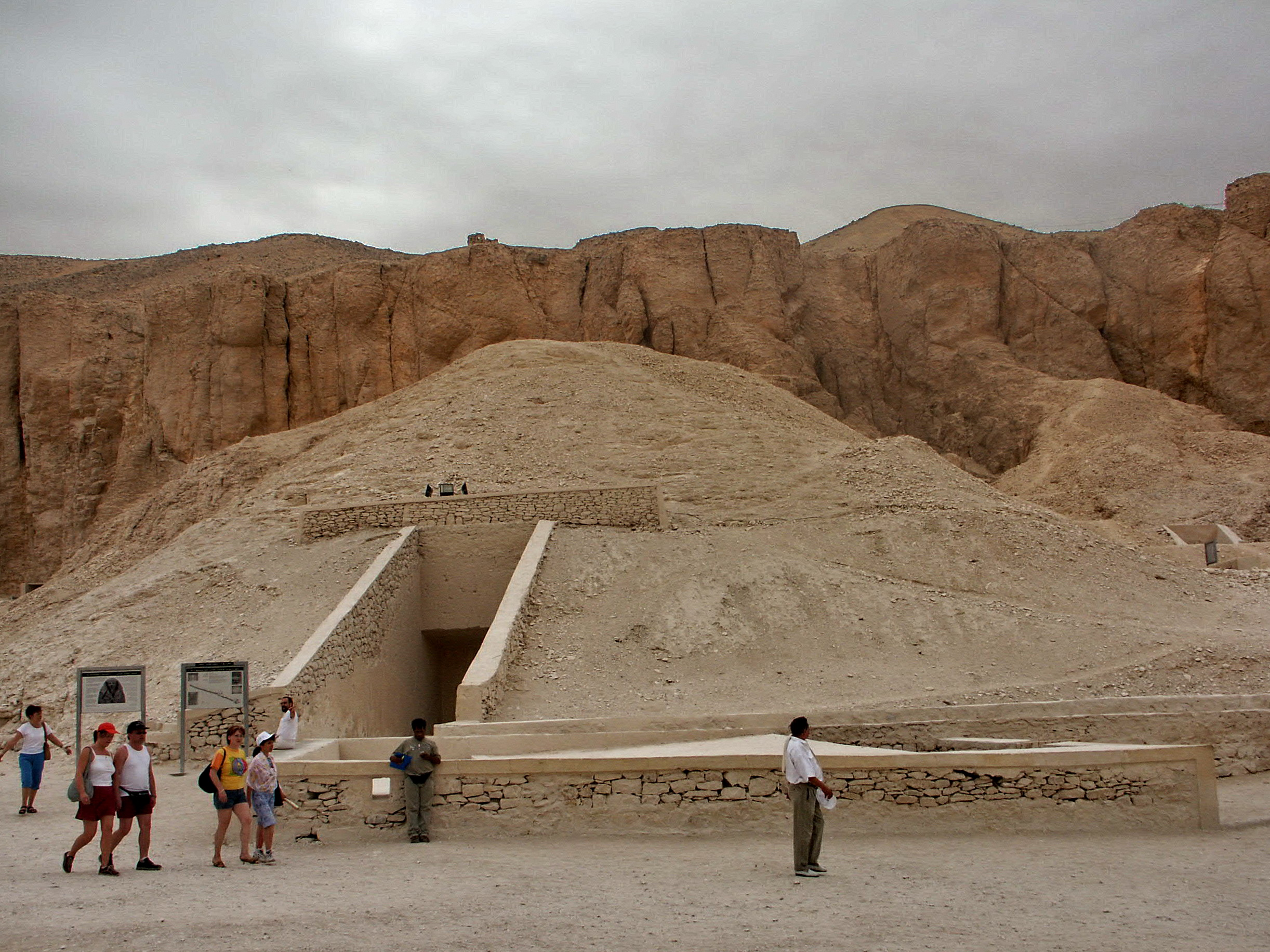 Entrance to the Royal Tomb 王陵入口